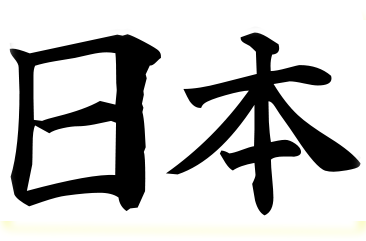 The word "Nihon" written in Kanji (horizontal placement of characters). The text means "Japan" in Japanese. Palabra "Nihón" (Japón) escrita en japonés.